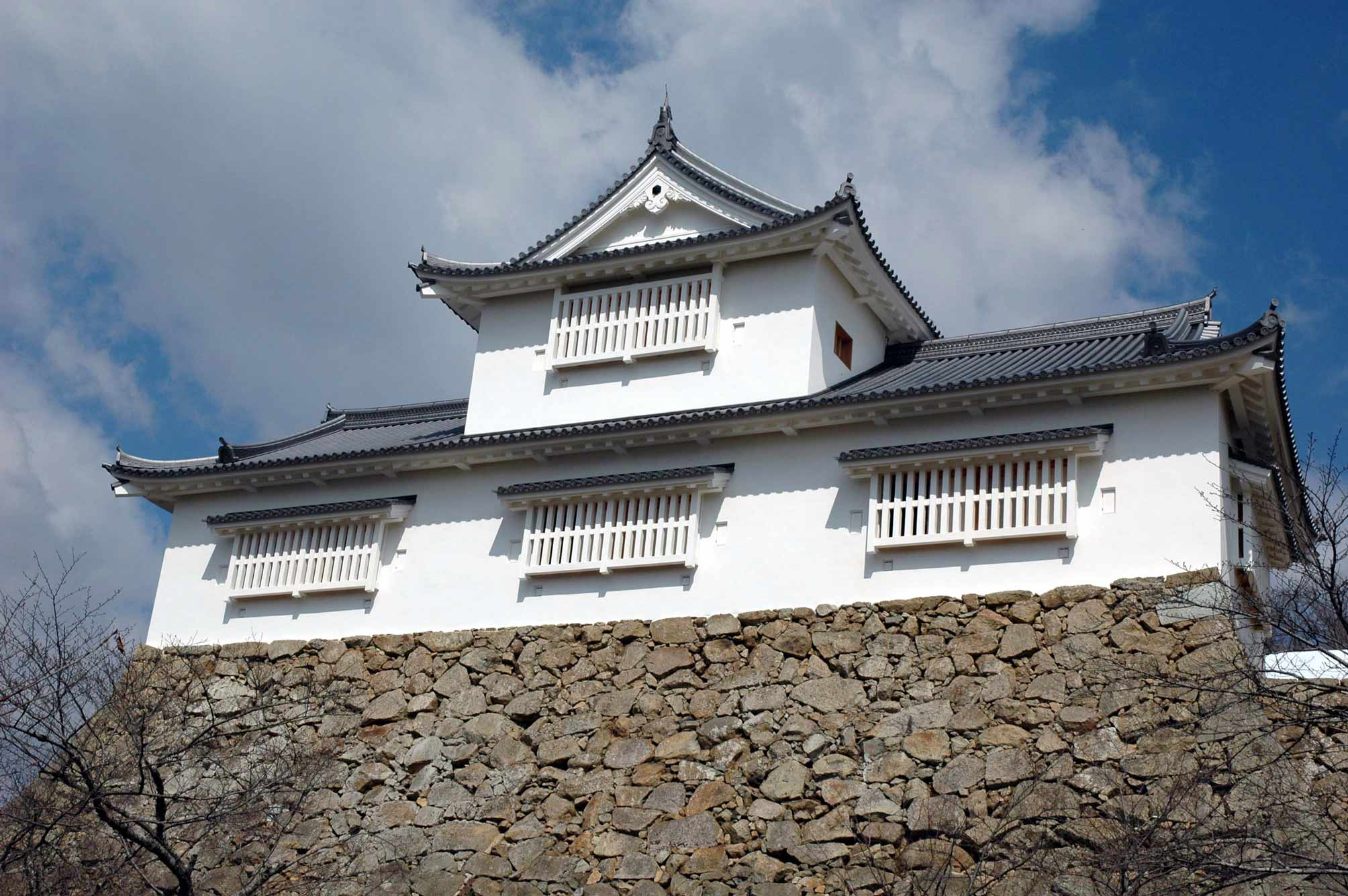 photo of Tsuyama Castle Bitchuu-yagura